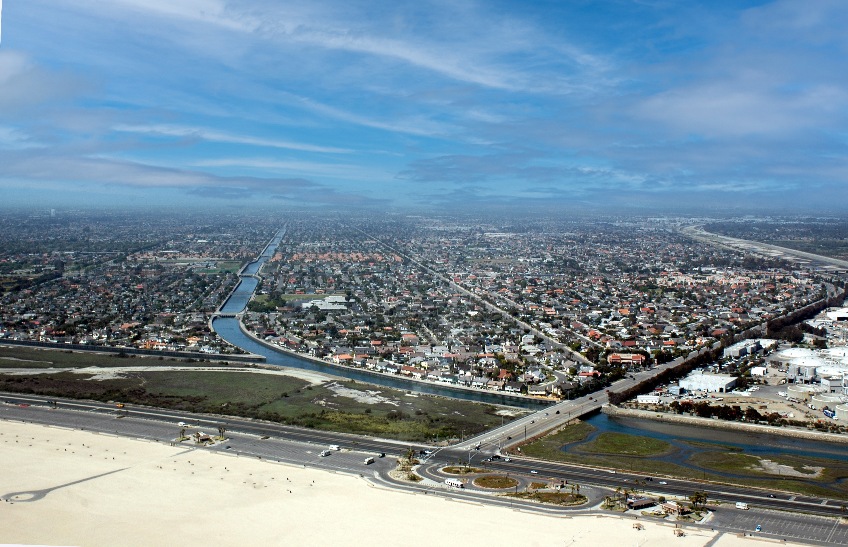 Brookhurst & Pacific Coast Hwy in Huntington Beach CA photo D Ramey Logan - please provide name credit if used in any media